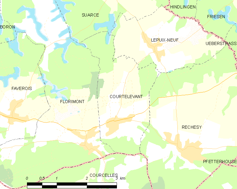 Map of French municipality Courtelevant